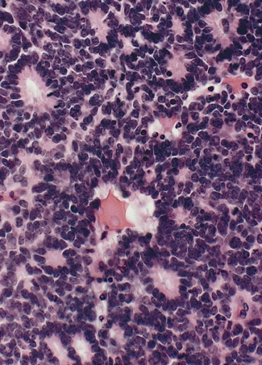 ADRENAL GLAND: RETINOBLASTOMA This retinoblastoma has characteristic Flexner-Wintersteiner rosettes with circular alignment of short columnar cells around a central lumen.